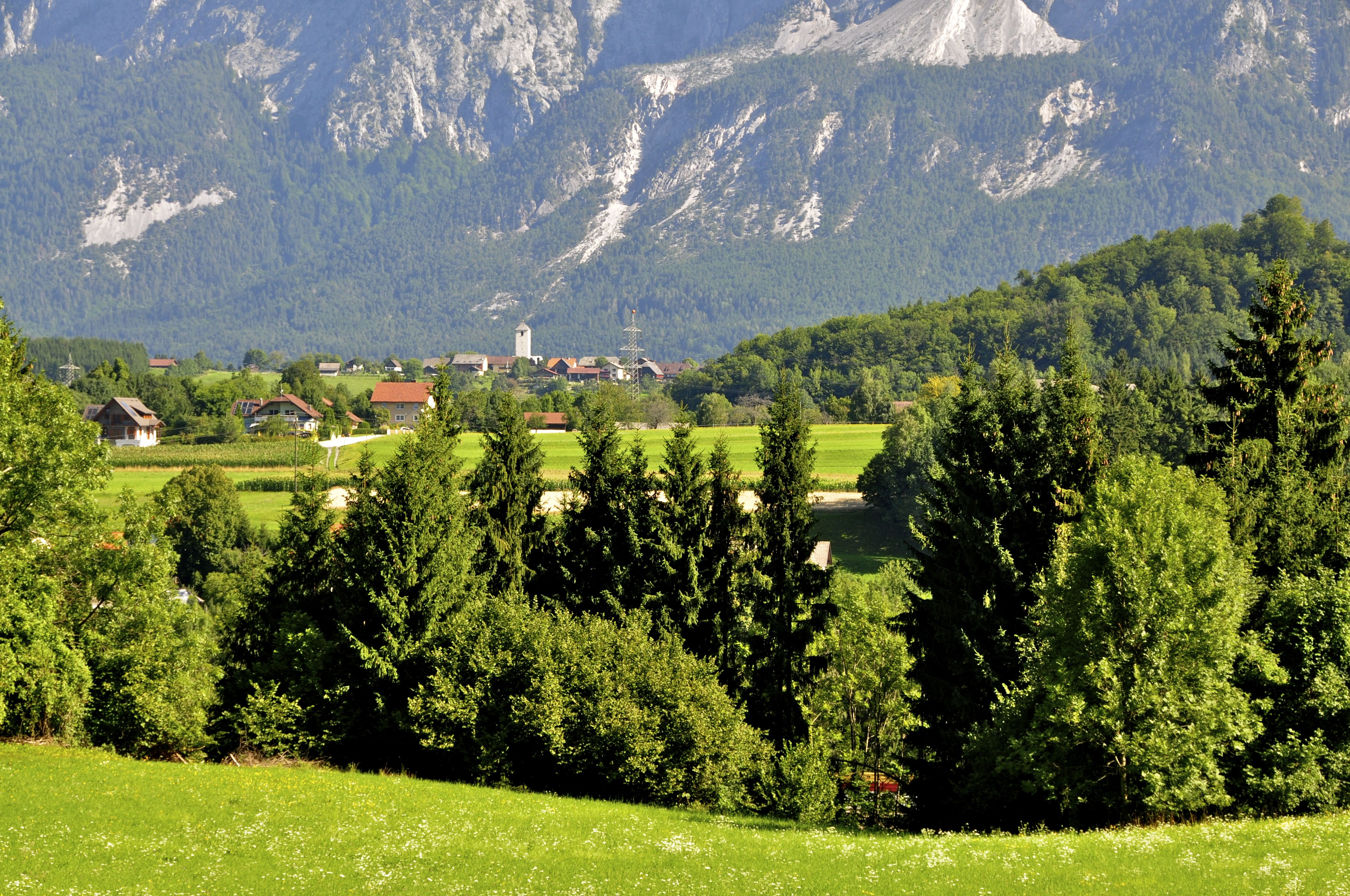 View from the Hoischhuegel at Hohenthurn and Meclaria/Maglern in Arnoldstein, municipality Arnoldstein, district Villach Land, Carinthia / Austria / EU